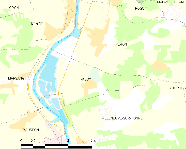 Map of French municipality Passy